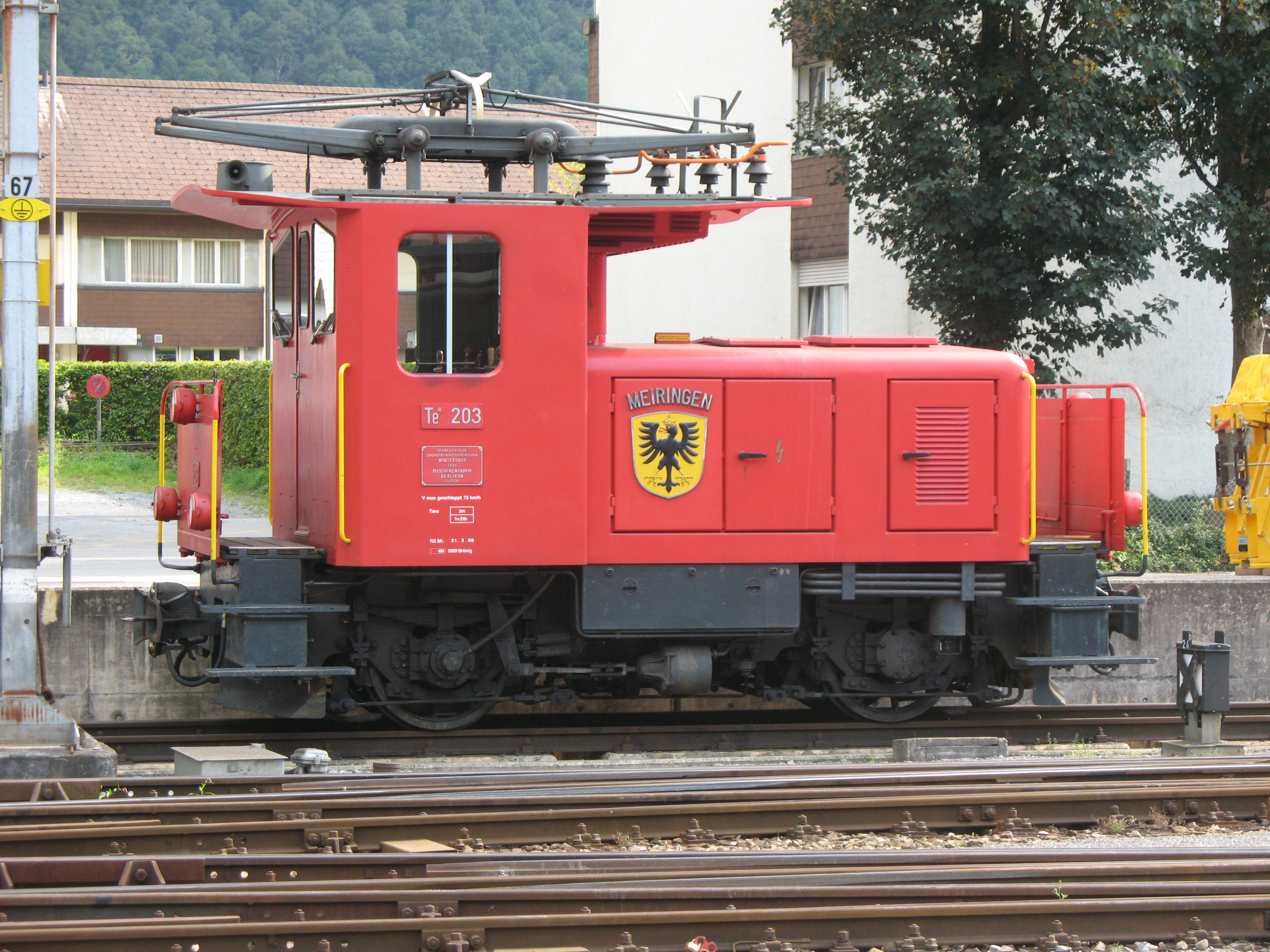 Zentralbahn Te III in Meiringen, Switzerland